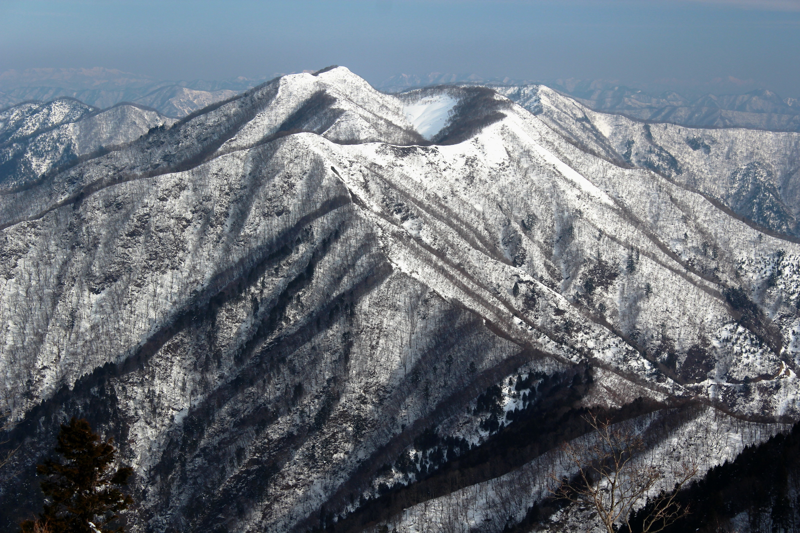 Mount Hanabusa seen from Mount Odugongen in Ibigawa, Gifu prefecture, Japan.